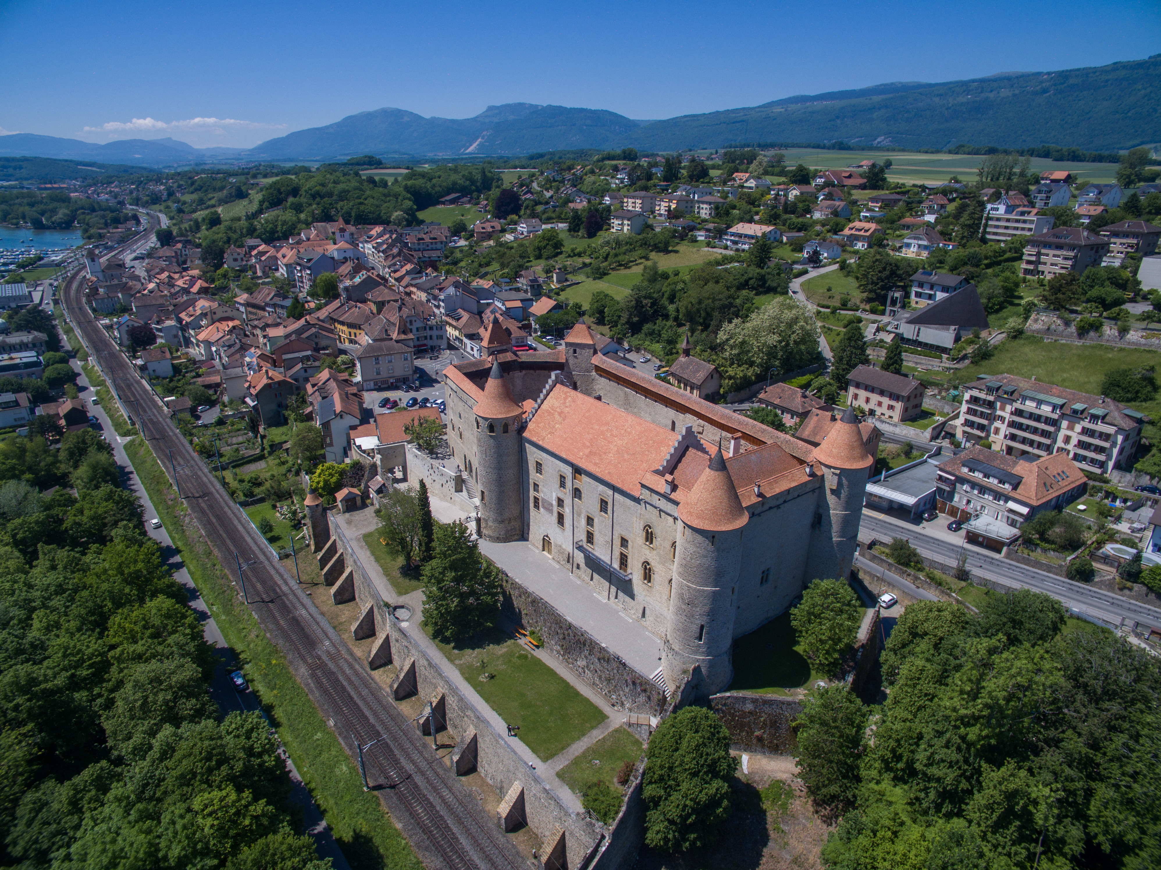 Chateau-Grandson-P3P-20170526-002